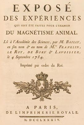 Frontispiece of the Exposé des expériences qui ont été faites pour l'examen du magnétisme animal written by Jean Sylvain Bailly and publically read the 4th September 1784 at the Académie des sciences.